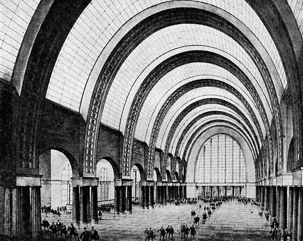 Kursky Terminal Draft, 1933 contest